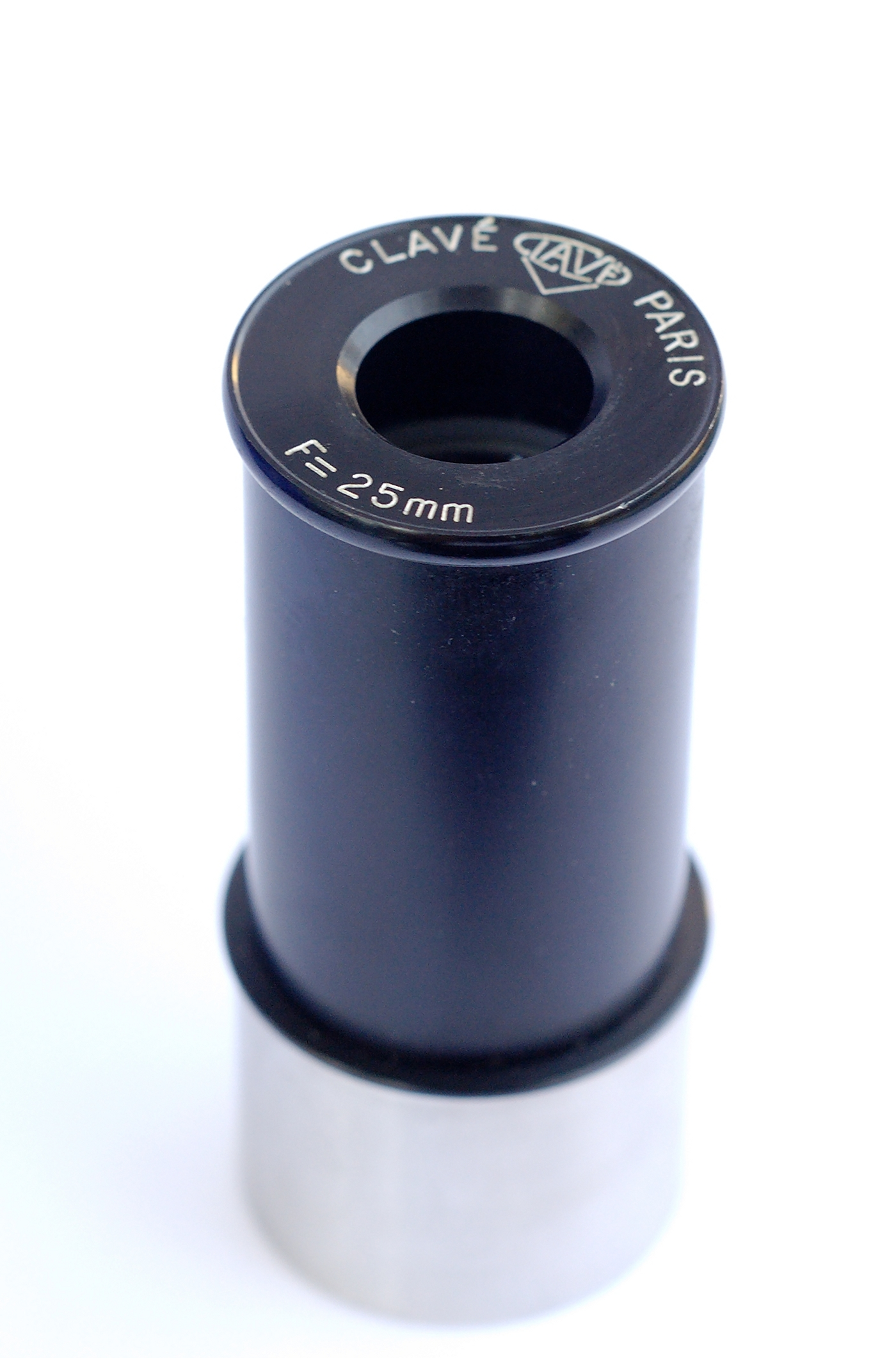 25 mm Clavé Plössl eyepiece.